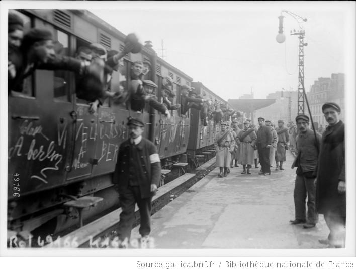 Departure of the French soldiers of the class 18 (boys aged 20 in 1918), gare de l'Est (Paris). Exact date unknown.